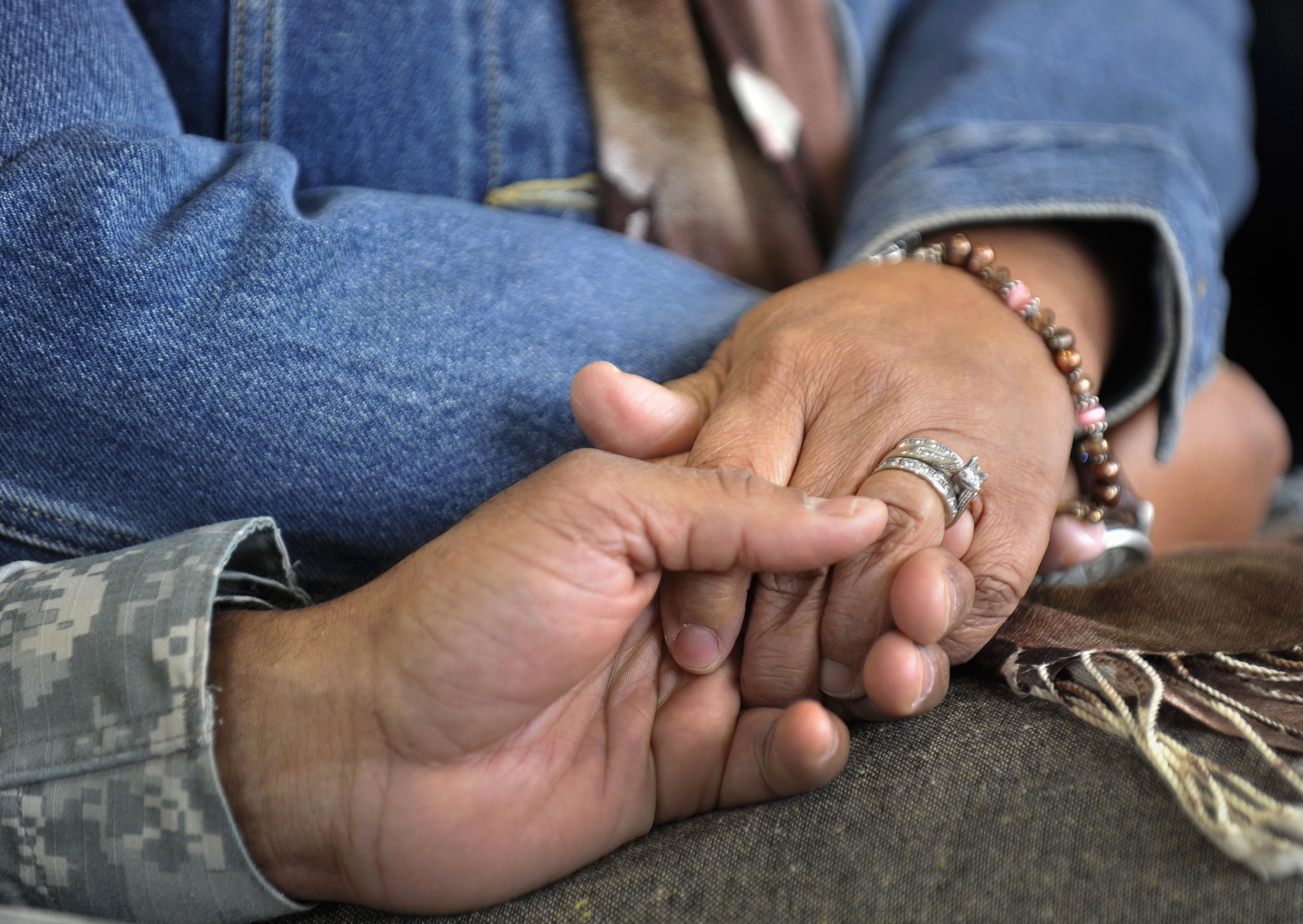 A military couple holds hands as Defense Secretary Leon E. Panetta talks to troops on Fort Bliss in El Paso, Texas, Jan. 12, 2012.